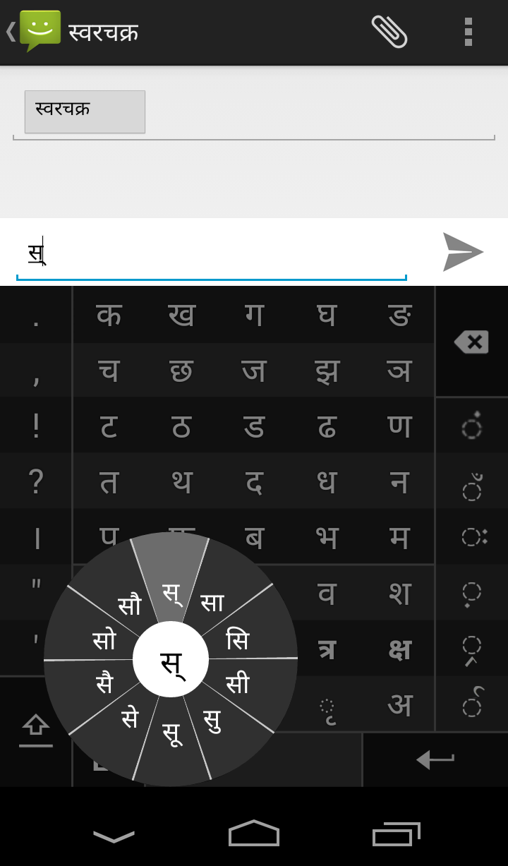 Swarachakra Hindi on Android